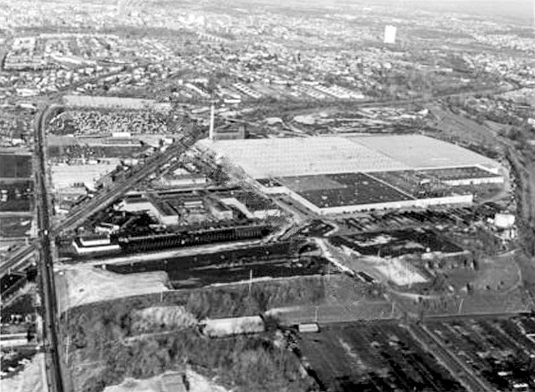 Mack Trucks Plant 5C